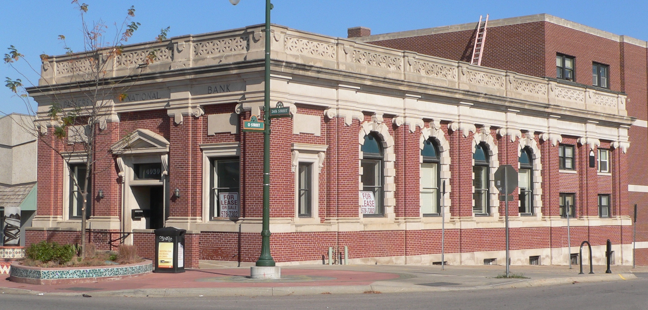 Packer's National Bank building, located at 4939 S. 24th Street (northeast corner of 24th and O Street) in Omaha, Nebraska; seen from the southwest.